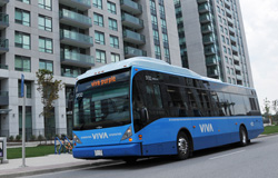 Image of Viva Bus Exterior